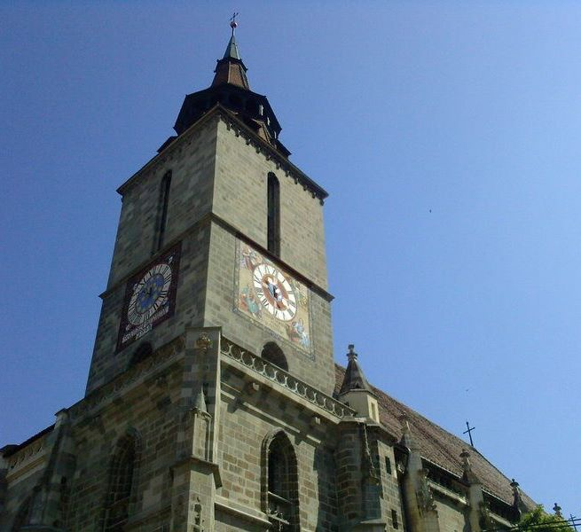 The Black Church from Brasov